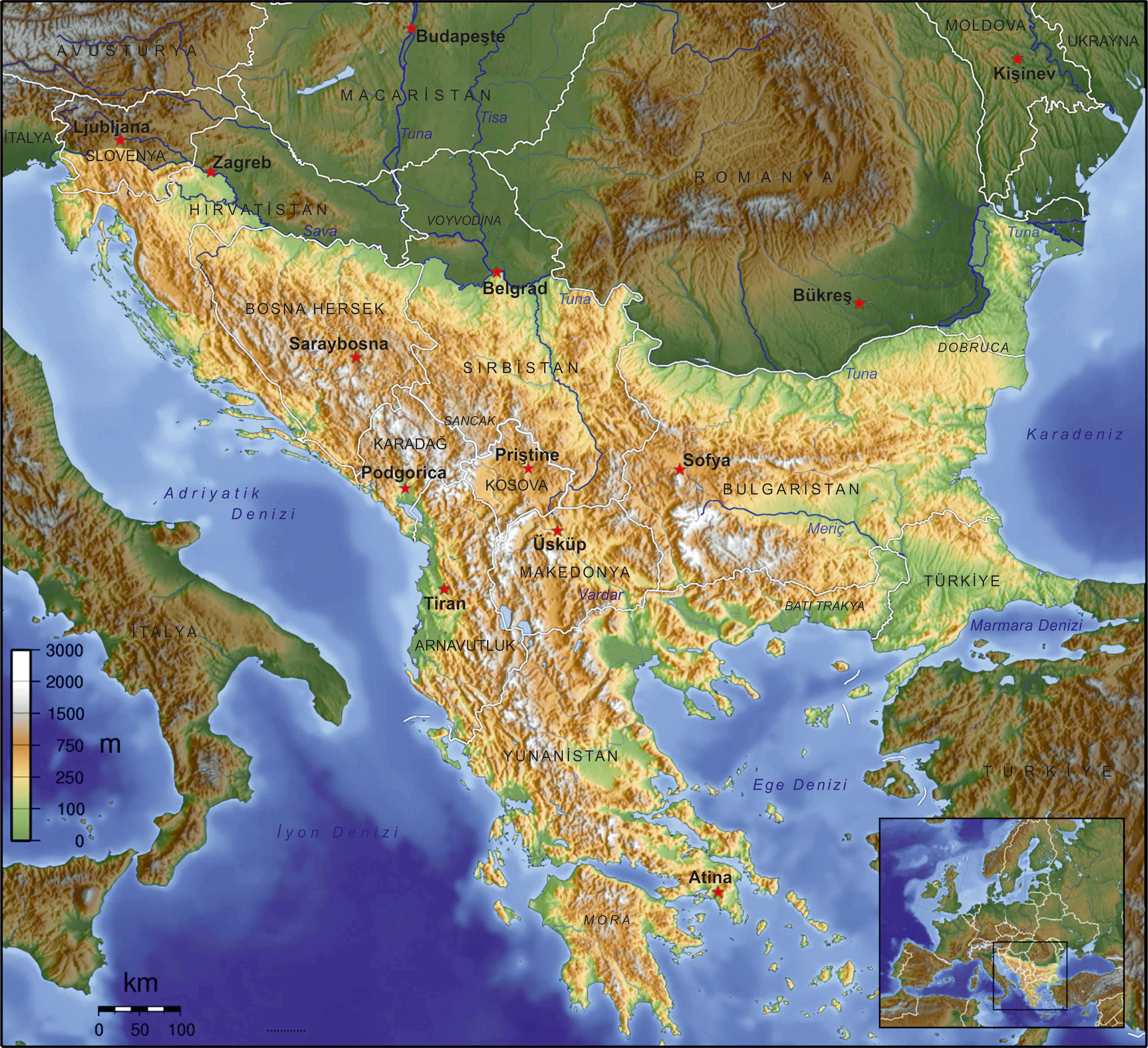 Topographic map of the Balkans in Turkish.